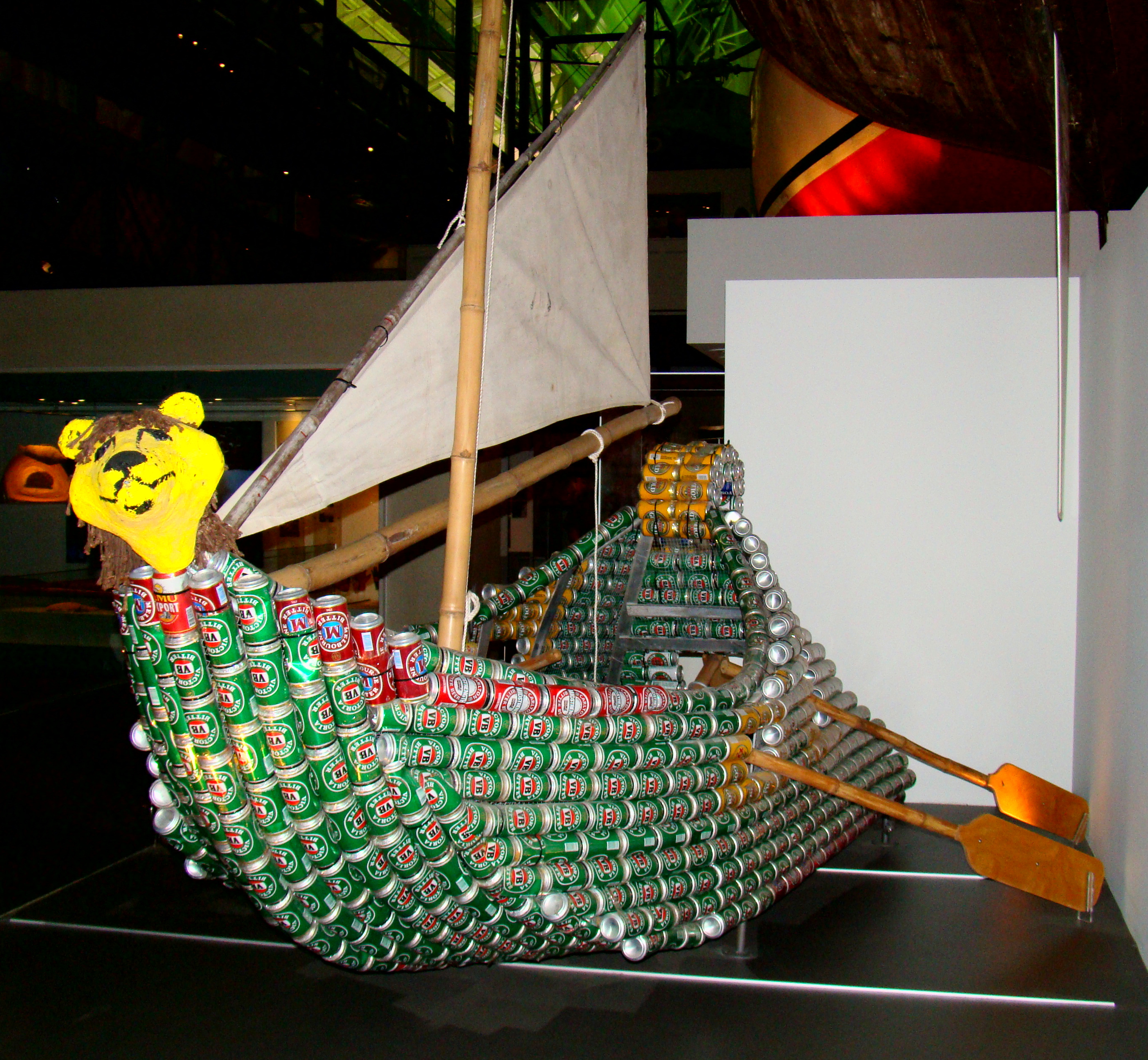 A fairly typical more or less floating thingie built from beer-cans, meant to be used in the annual Darwin Beer-can Regatta. Photographed in the Australian National Maritime Museum, in Sydney, New South Wales, Australia.